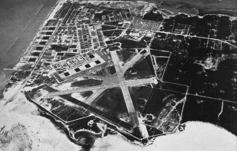 Aerial veiw of the U.S. Naval Air Station Corpus Christi, Texas (USA), 1946/47.